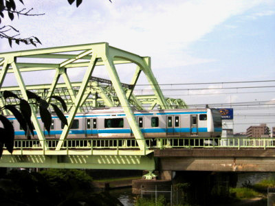 A view upstream of the Shingashi River at Akabane, Kita, Tokyo, seen from its north bank. The bridges are for the Keihin-Tōhoku Line and the Tōhoku Main Line. See the photographer's blog.